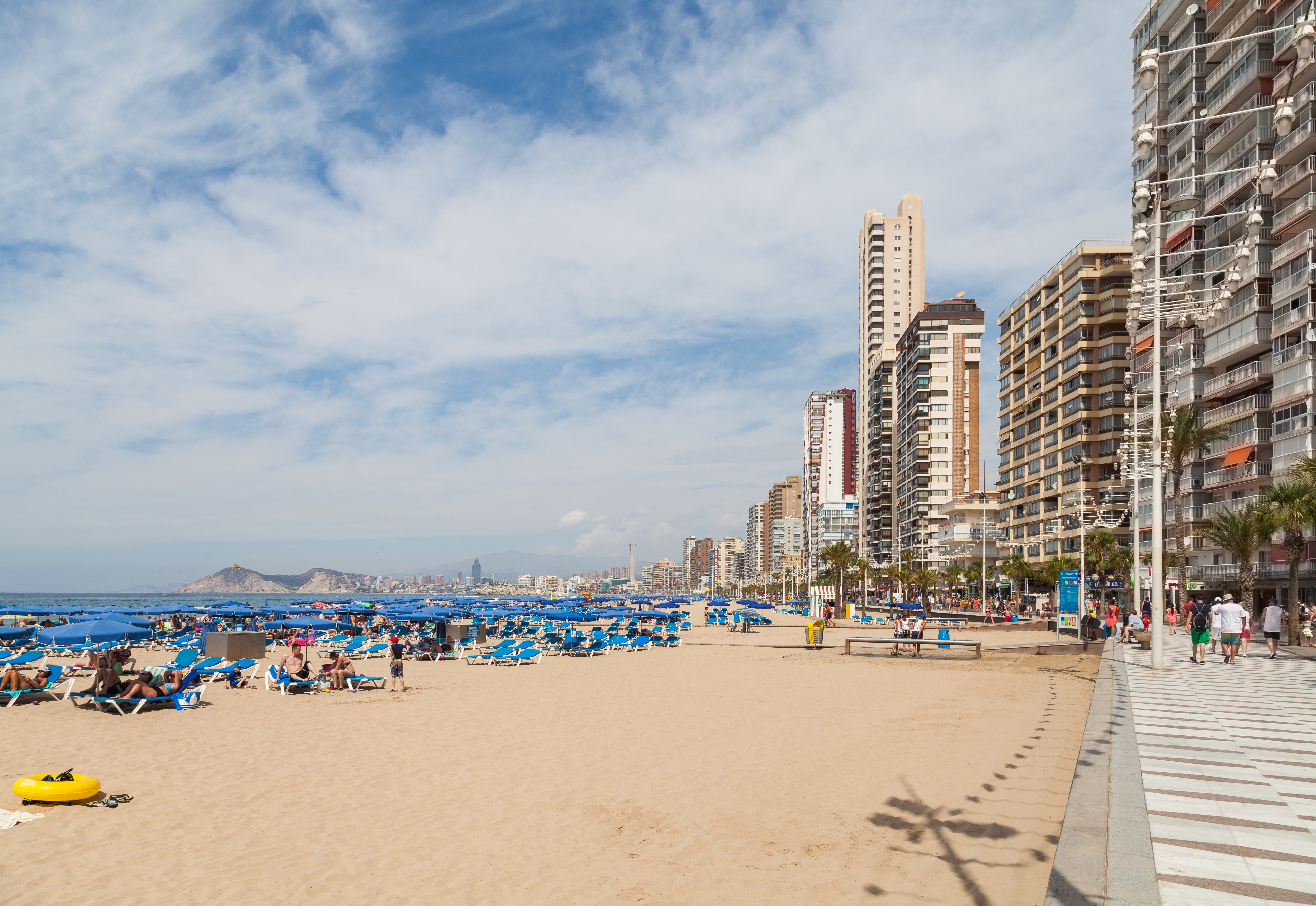 Levante beach, Benidorm, Spain